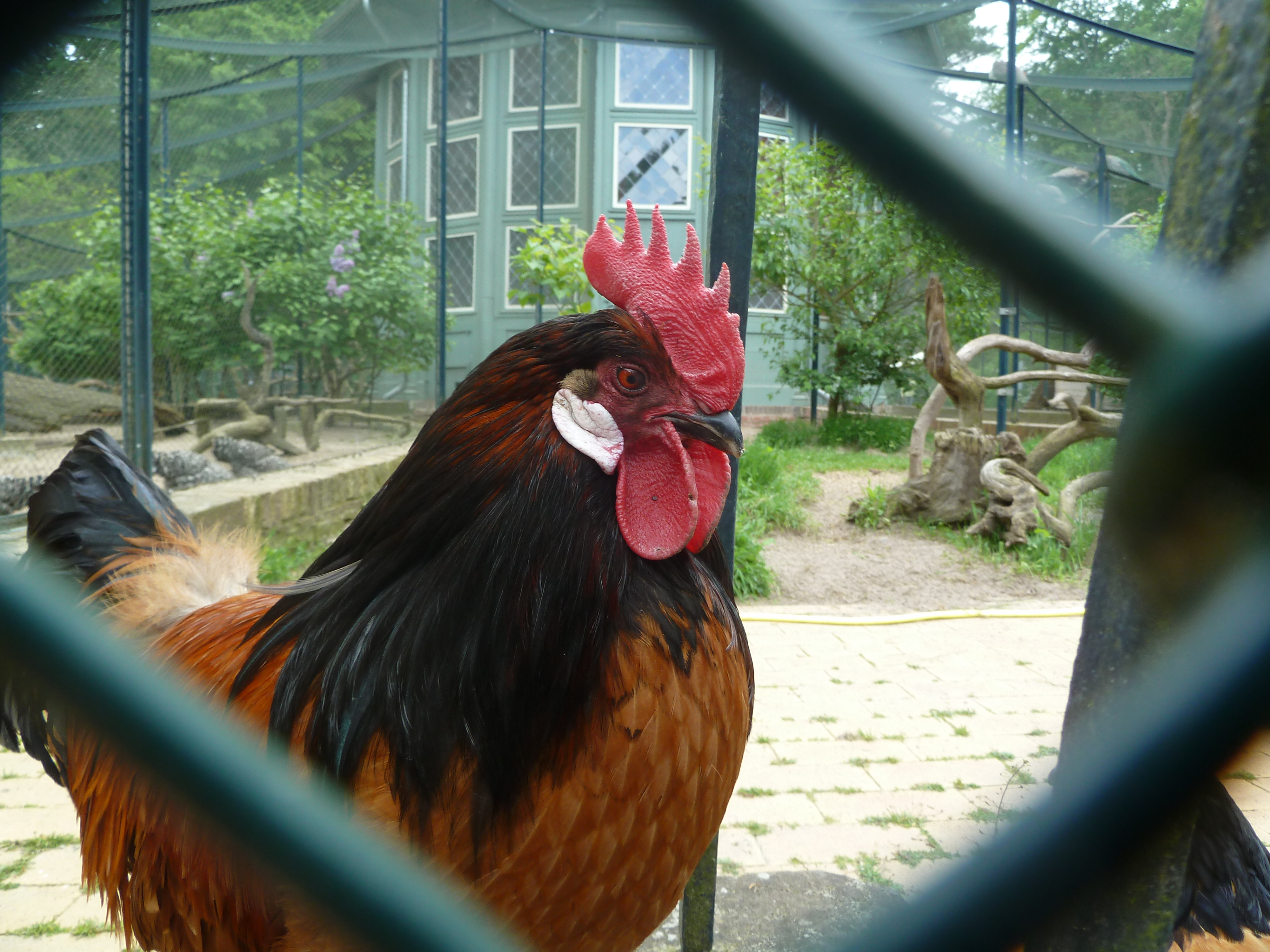 A Vorwerk rooster, Pfaueninsel, Berlin